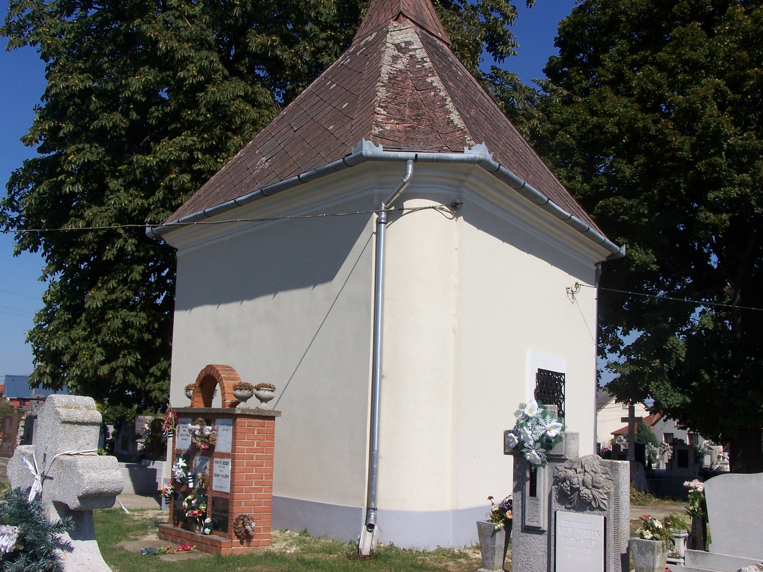 Triangular cemetery chapel in Sajólád, Hungary (Dózsa György street, Cemetery)